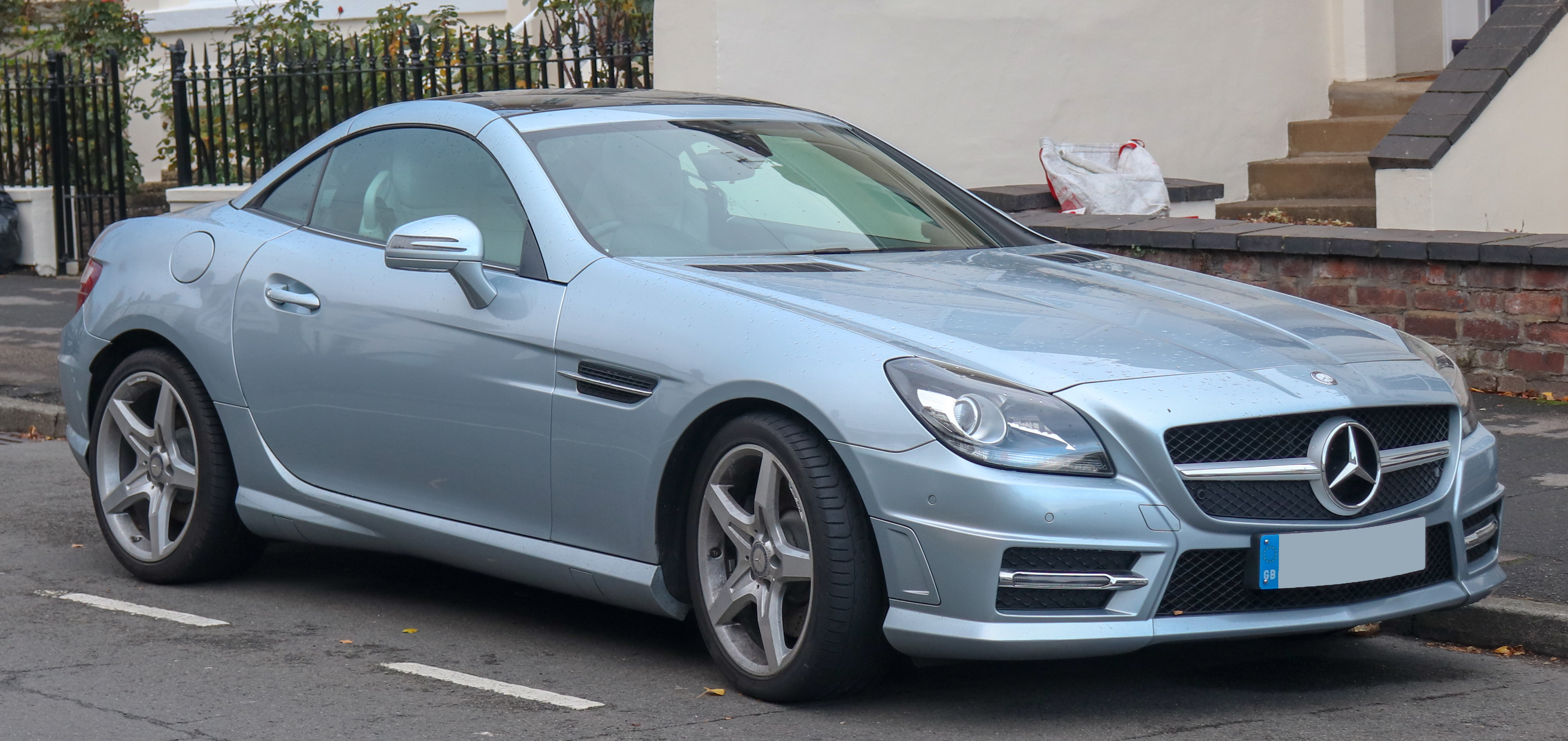 2015 Mercedes-Benz SLK250 AMG Sport CDi BlueTec 2.1 Front Taken in Leamington Spa